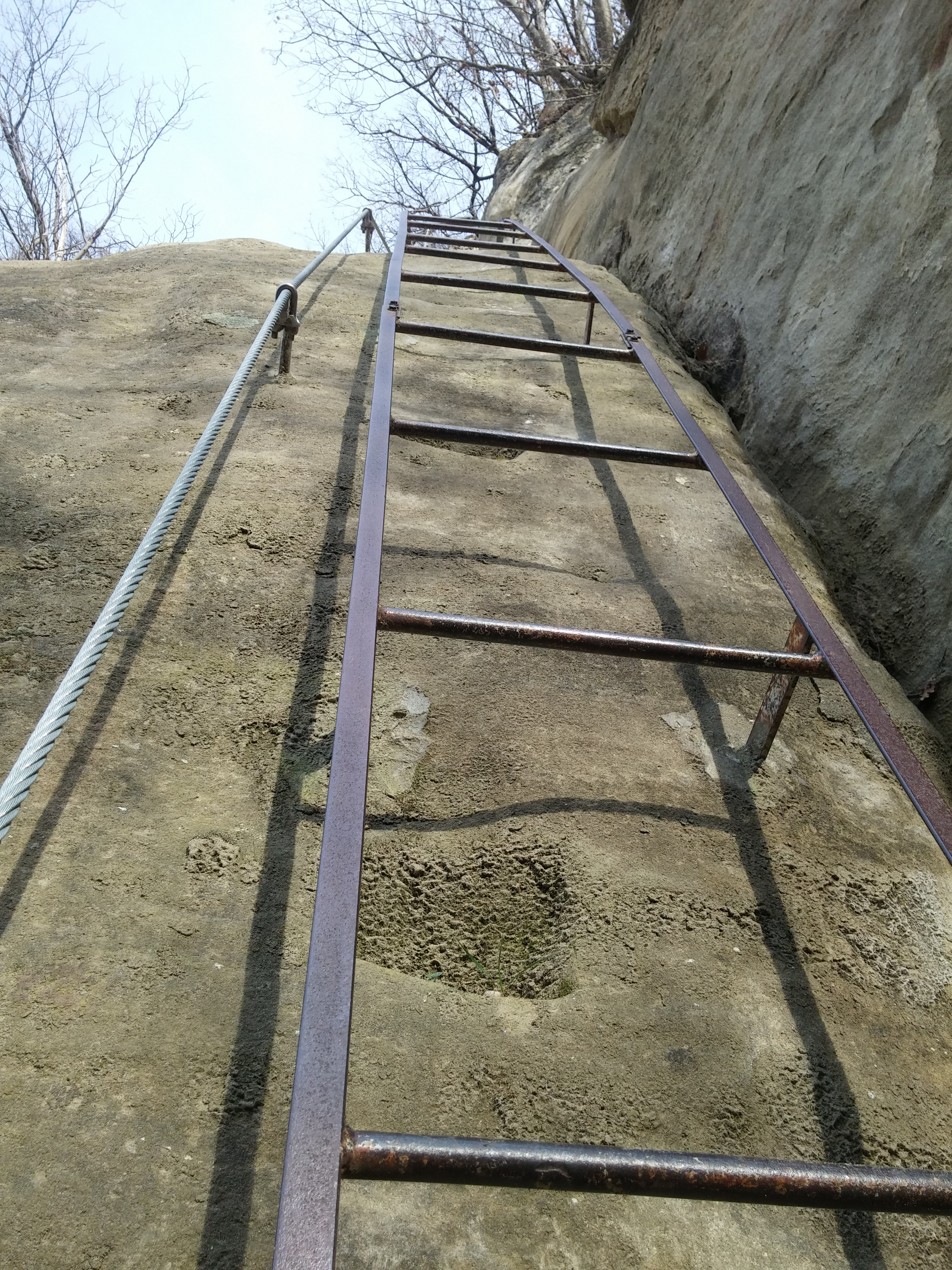 Stairway via ferrata "ferrata del pliocenico" at Rocca di Badolo (Bologna, IT)